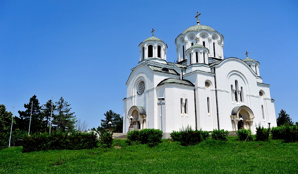 Exterior of Memorial Church- Lazarevac